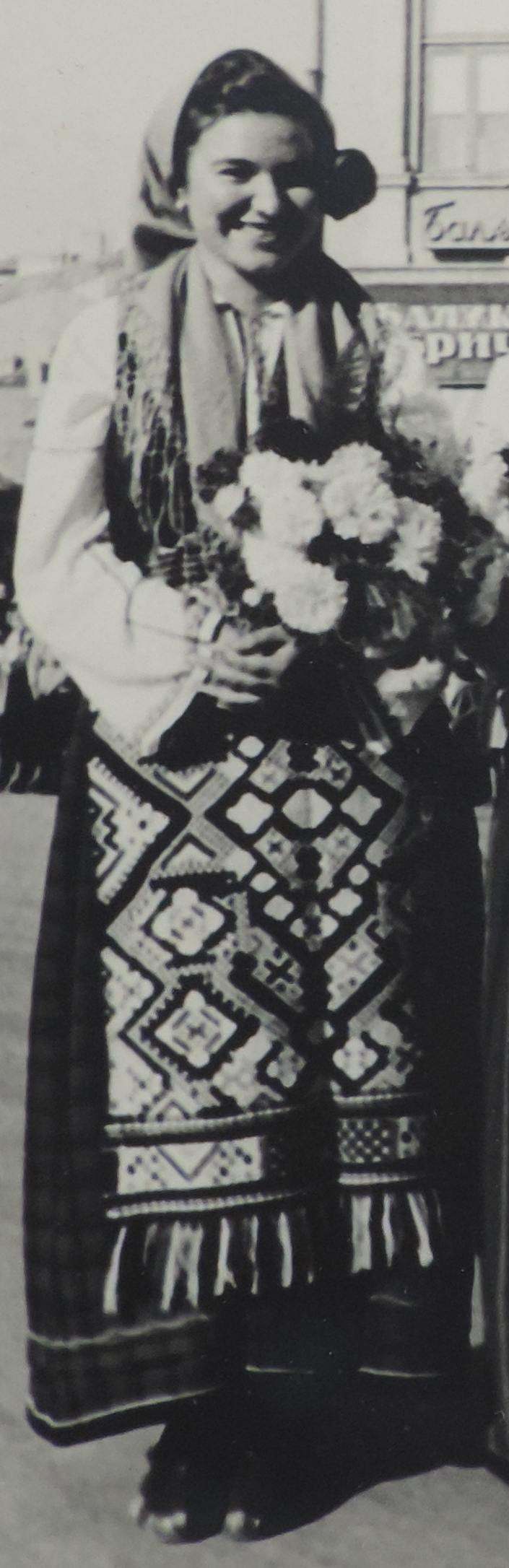 Photo of South Dobruja, 1940.